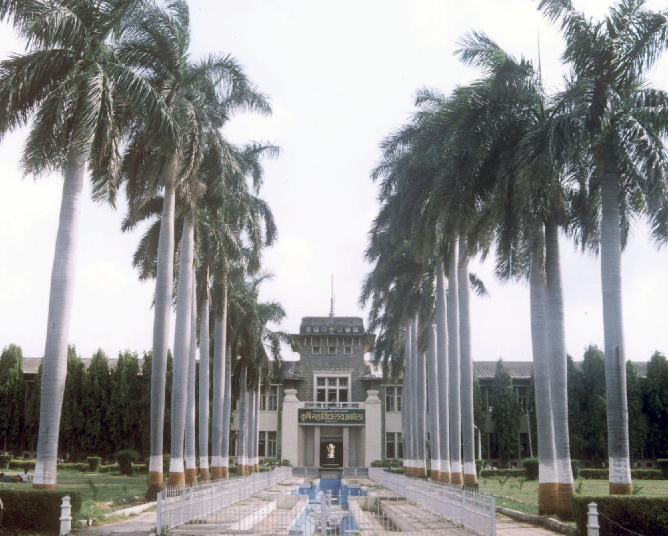 Source: I made it myself; the photo is taken from my own camera and I own the copyright for this photo. Ashish Wankhade 20:57, 1 April 2006 (UTC) Ashish Wankhade.